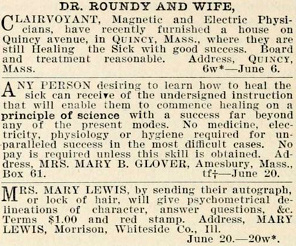 Ad (see second ad) in the Banner of Light, July 4, 1868, from Mary Baker Eddy, then Mary B. Glover (see Christian Science).